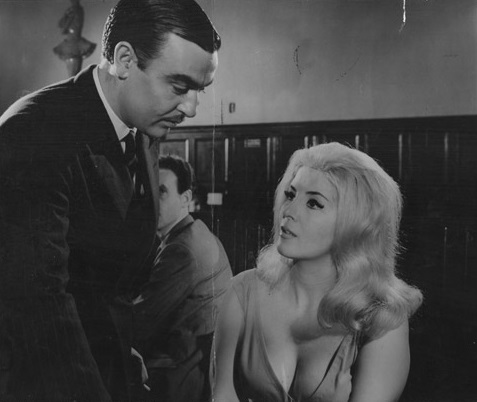 María M..- película argentina de 1964